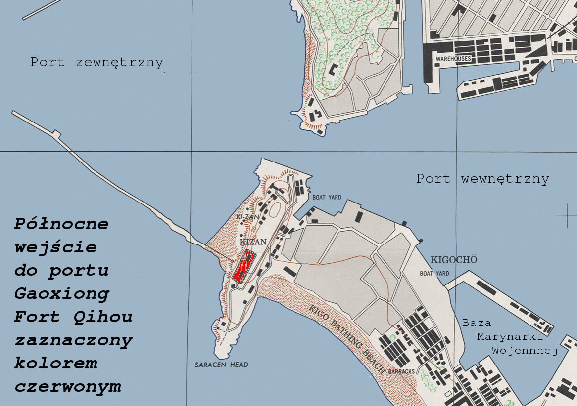 Map of the northern entrance to Kaohsiung Harbour with Qihou fort marked red. Polish descriptions: Port Wewnętrzny - Inner Harbour, Port Zewnętrzny - Outer Harbour, Baza Marynarki Wojennej - Navy Base